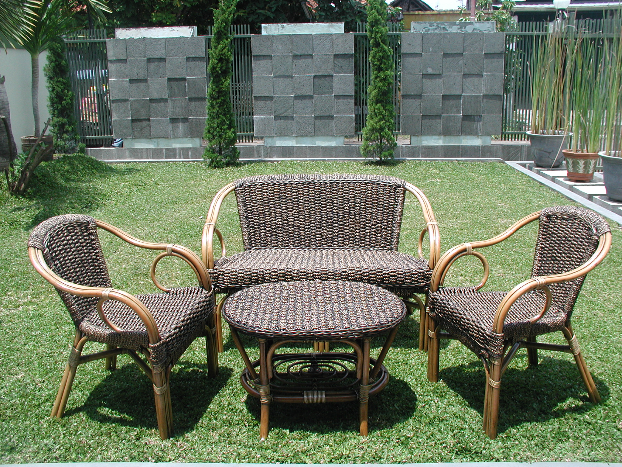 Rattan is among the oldest natural furniture material in use today. Unlike bamboo, which is hollow, rattan is a solid timber vine that grows in the jungles of Indonesia. Rattans are climbing palms that provide the raw material for the cane-furniture industry. Sometimes confused with bamboo, canes can usually be distinguished because they are solid, whereas bamboos are almost always hollow. Although there are some climbing palms in the New World, the true rattans are restricted to the Old World tropics and subtropics. They are particularly abundant in South-east Asia and the Malay Archipelago. Over 600 different species belonging to 13 genera have been recognized. Their major habitat is tropical rain forest, where in much of South-east Asia they represent the most important forest product after timber. Wicker is a weaving process, not a material. One of the materials used in the weaving process is called rattan core, which comes from the rattan interior. A machine cuts the inside of the rattan pole, into pieces small enough in diameter for the weaving. Due to the nature of this product, splits and discolorations in the rattan poles are to be expected. They even enhance the beauty and uniqueness of these handcrafted products.